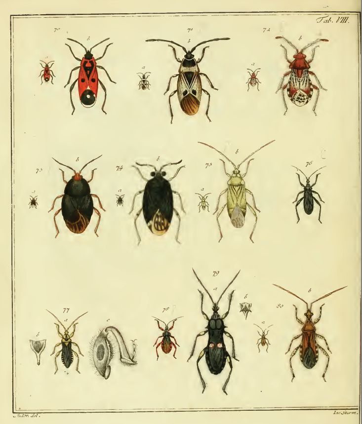 Plate 8 from "Icones Cimicum descriptionibus illustratae", by Ioanne Friderico Wolff. Johann Friedrich Wolff, 1778-1806 Richmond, Charles Wallace, 1868-1932 Sturm, Jakob, 1771-1848 Wolff, Johann Philip, 1747-, Publication Ioann. Iacobum Palm